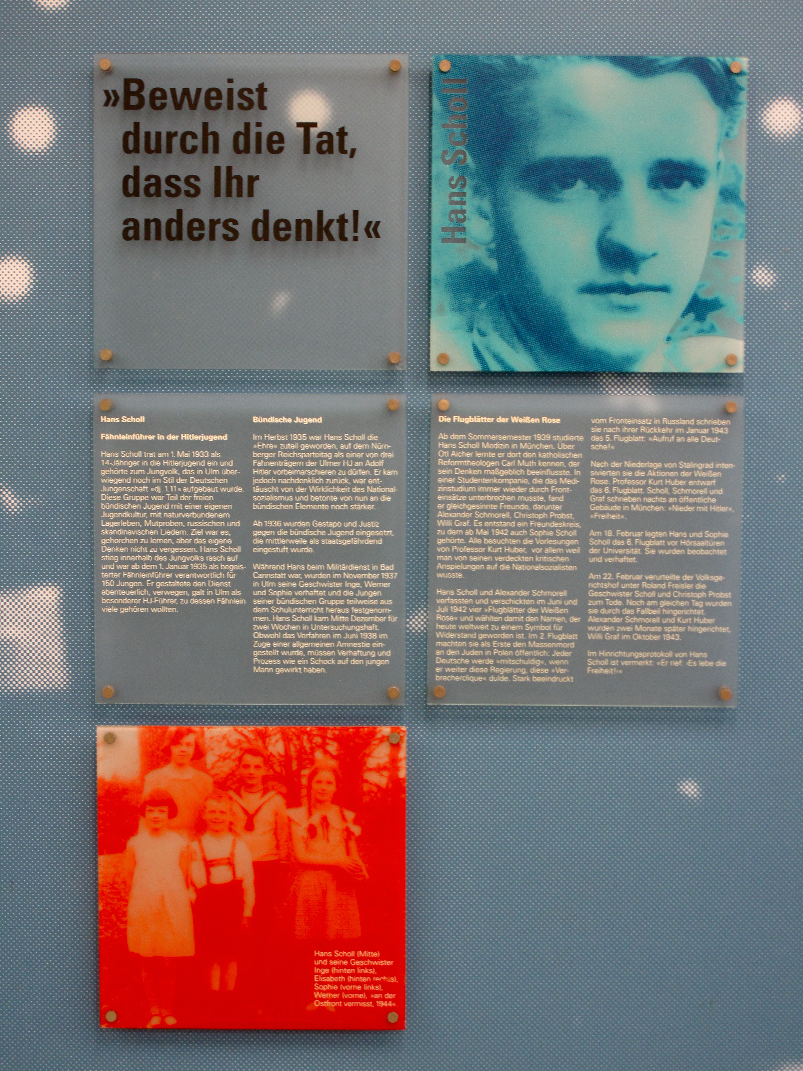 Hans Scholl in the Ulmer DenkStätte Weiße Rose which is in the foyer of the EinsteinHaus, the headquarters of the Ulmer Volkshochschule (vh Ulm) (Adult Education Centre of Ulm). It is a memorial for young people from Ulm who were in the resistance against the Nazi-Regime between 1933 and 1945 – amoung them also Sophie Scholl.